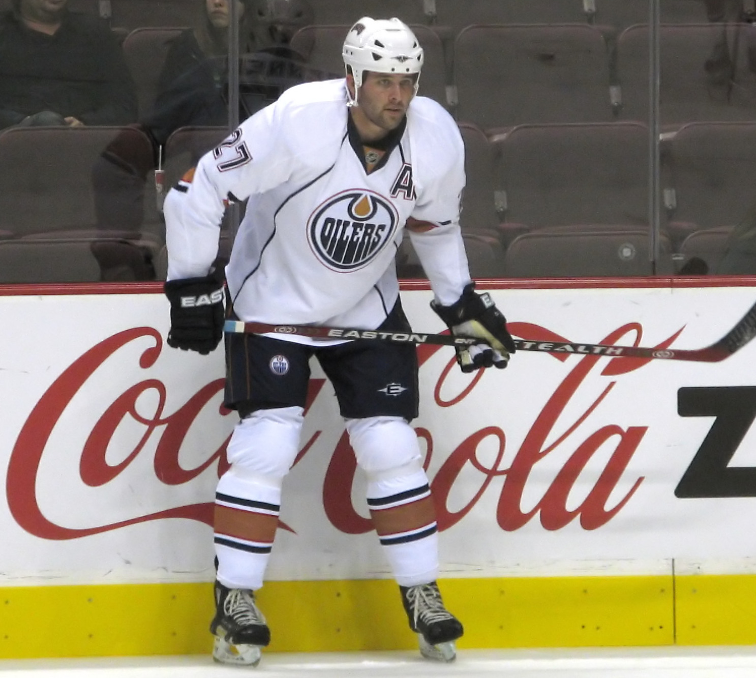 Dustin Penner in an Oilers uniform, September 2007